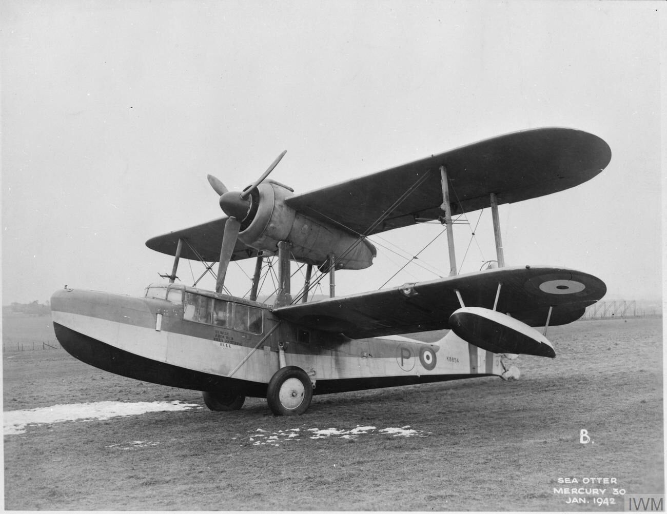 A prototype Fleet Air Arm Supermarine Supermarine Sea Otter, powered by a Bristol Mercury engine, on the ground.